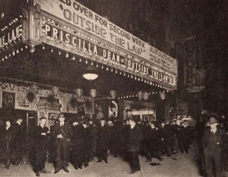 The Kinema Theater in Salt Lake City, Utah, showing the American crime film Outside the Law (1920), on page 54 of the March 5, 1921 Exhibitors Herald.